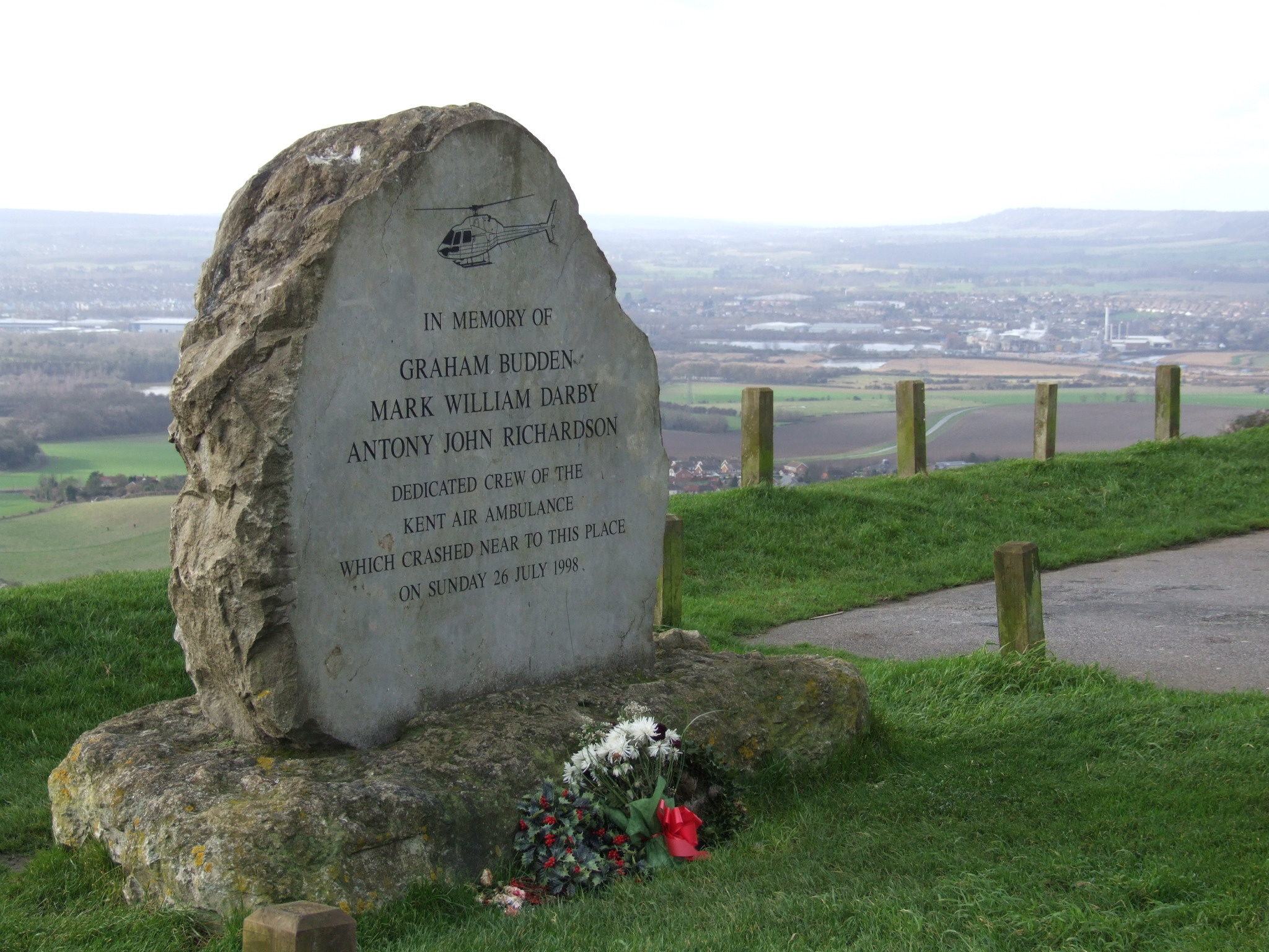 Blue Bell Hill Picnic site on the North Downs in Kent gives a view over the Medway Gap Memorial to Kent Air Ambulance Crew. Crashed 26 July 1998.